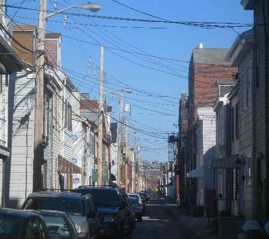 Looking east along Larkins Way on a sunny late afternoon.